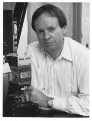 Faculty photograph of Keith O. Hodgosn, chemistry professor at Stanford university and SSRL.